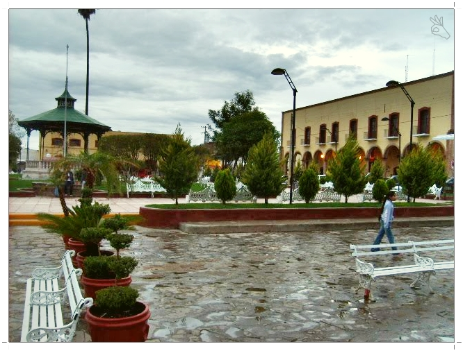 maid square